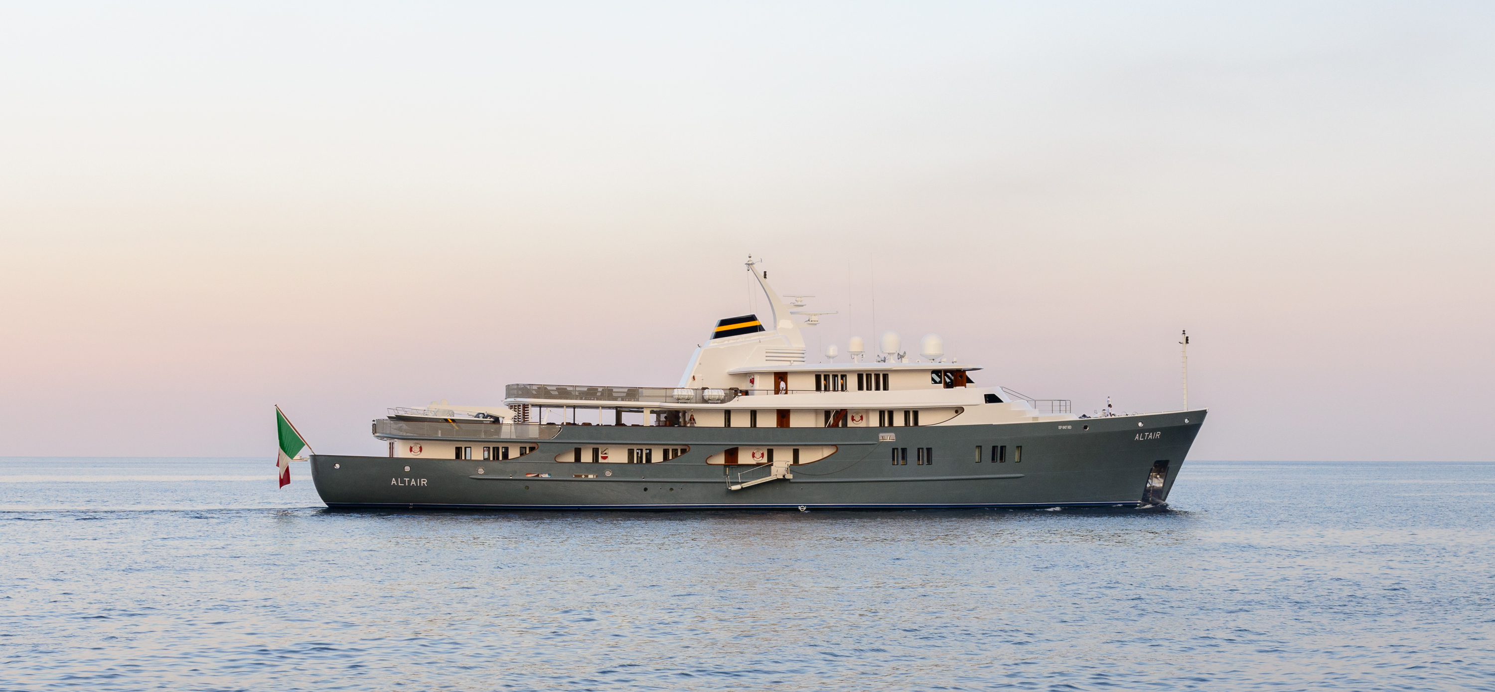 Italian yacht Altair, island of Stromboli, Aeolian Islands, Italy.